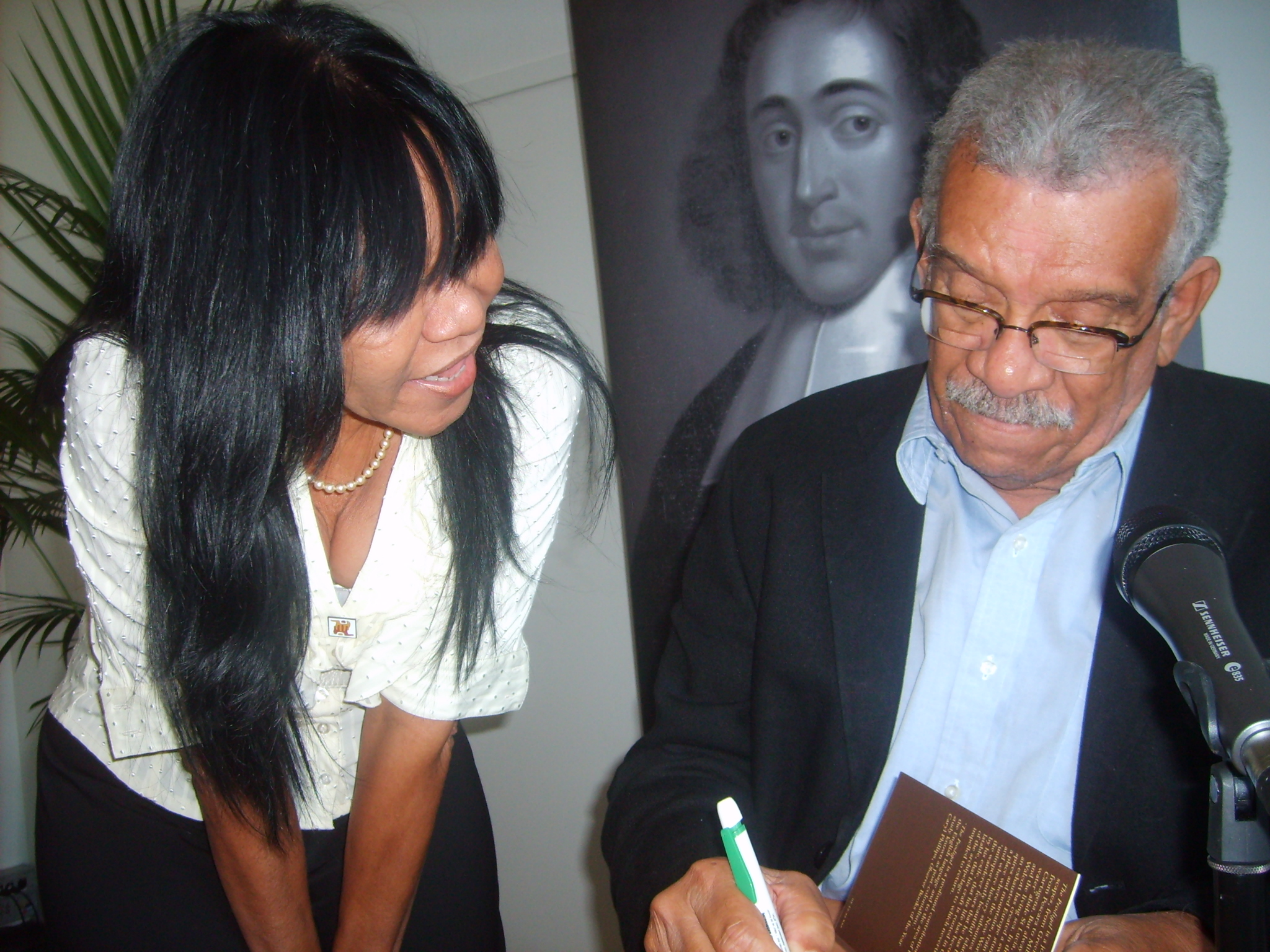 Derek Walcott (Nobel Prize in Literature 1992), poet from Saint Lucia, autographing a book for Diana Lebacs, Dutch-Antillian writer (Curacao), after a master class given in Amsterdam, May 19th 2008